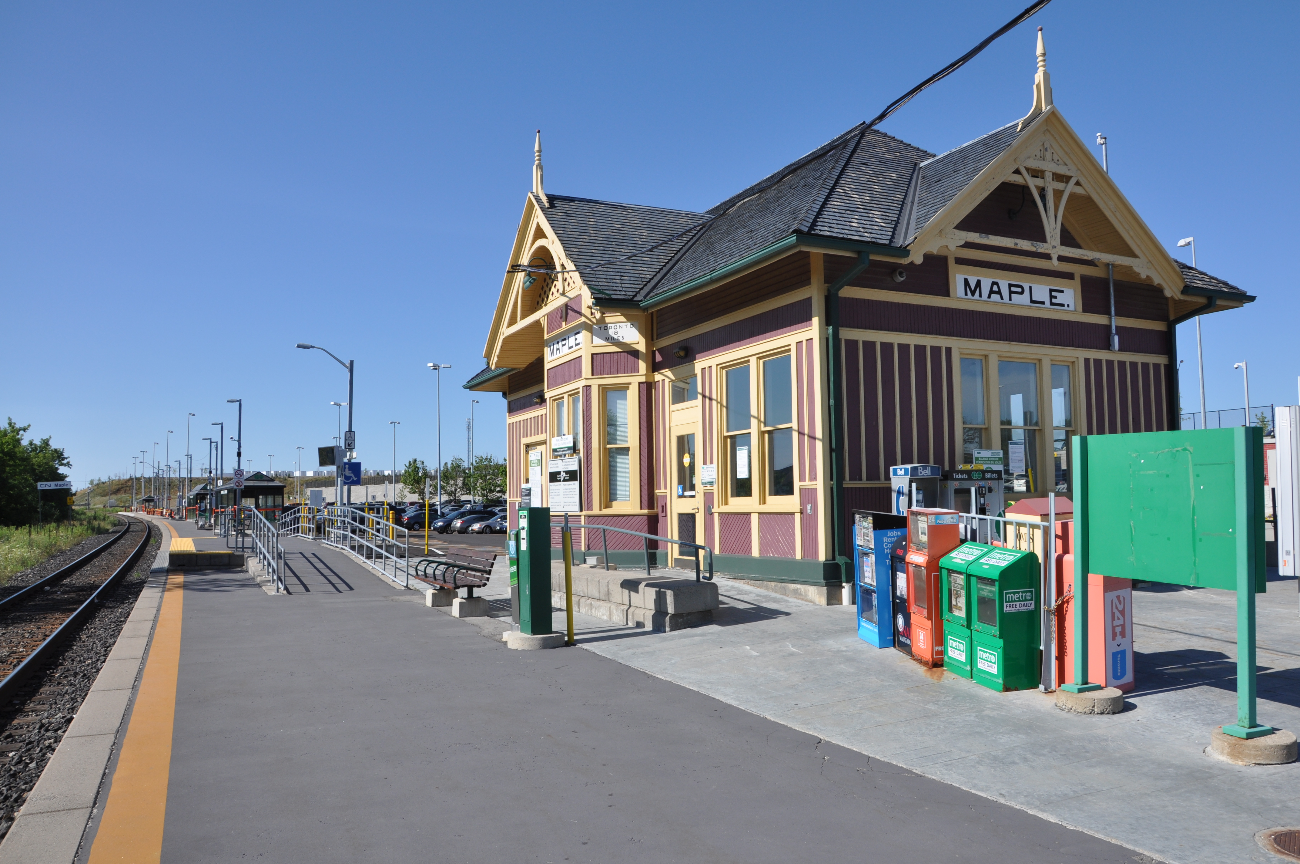 Track, platform and building of Maple GO station